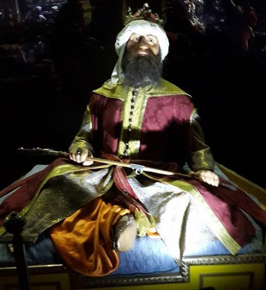 Wax statue of sultan Osman I on display at Istanbul Sapphire, İstanbul, Turkey.